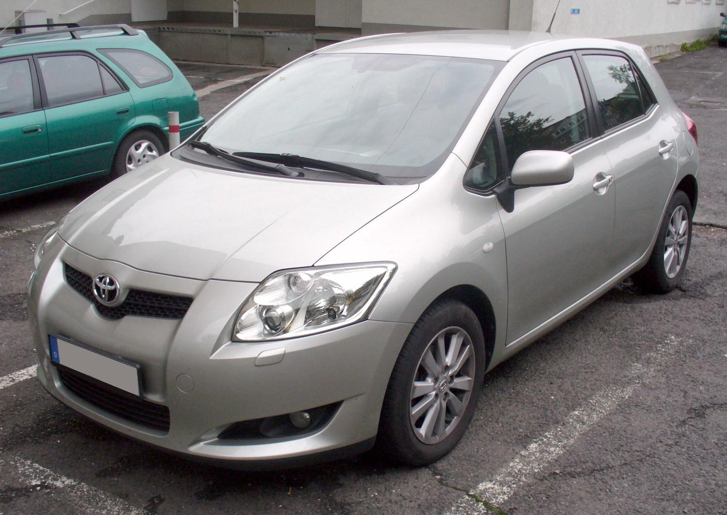 Toyota Auris